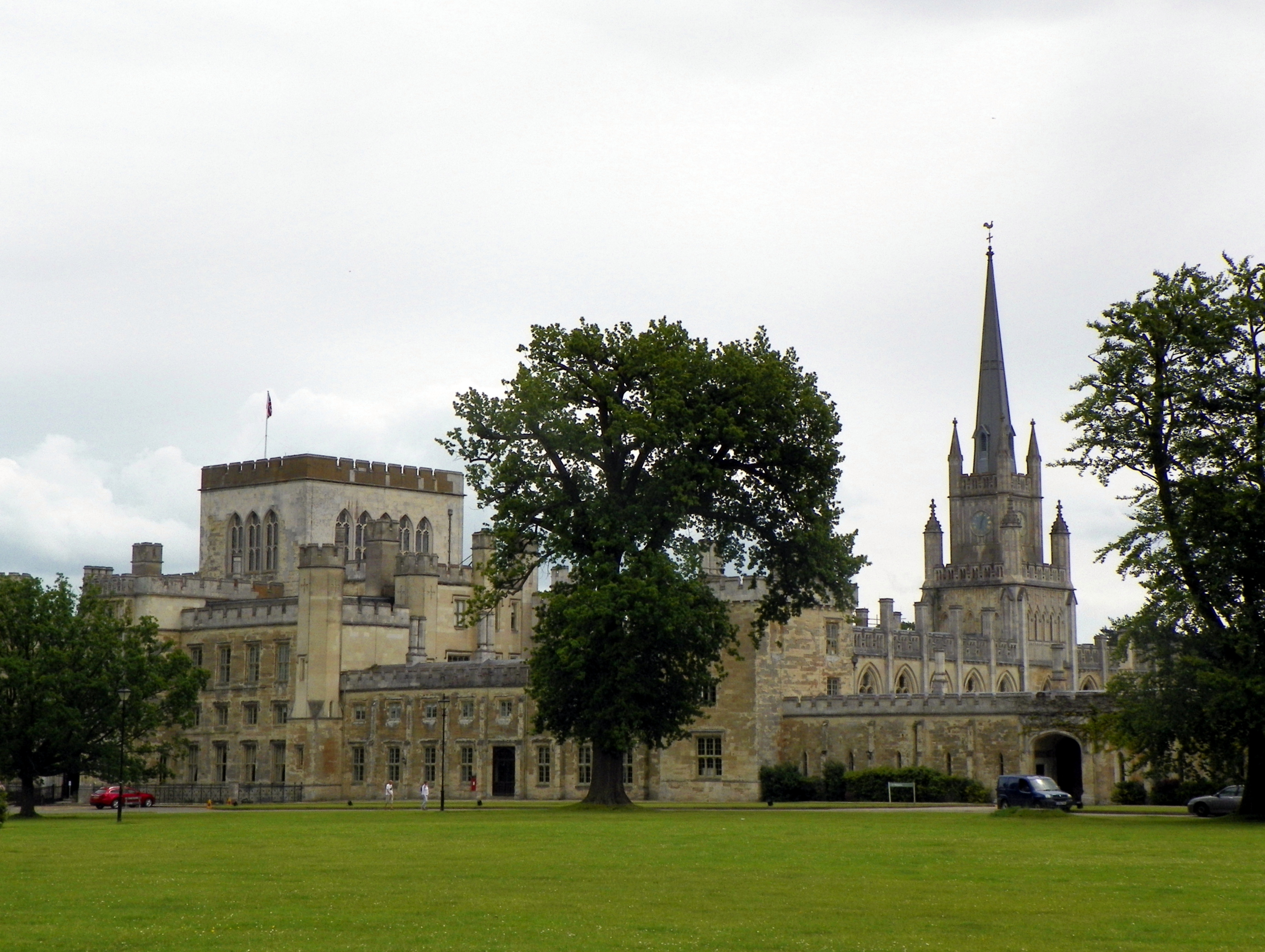 Ashridge House, which houses Ashridge Executive Education (formerly Ashridge Management College and Ashridge Business School), Little Gaddesden, Hertfordshire (Grade I listed building). The building was originally a country house dating to 1808–1825, when it was rebuilt in the Gothic style on the site of a monastery of 1283 that became a royal residence following the dissolution of the monasteries in 1539 and then a private house. It became It became Ashridge Business School in 1959.